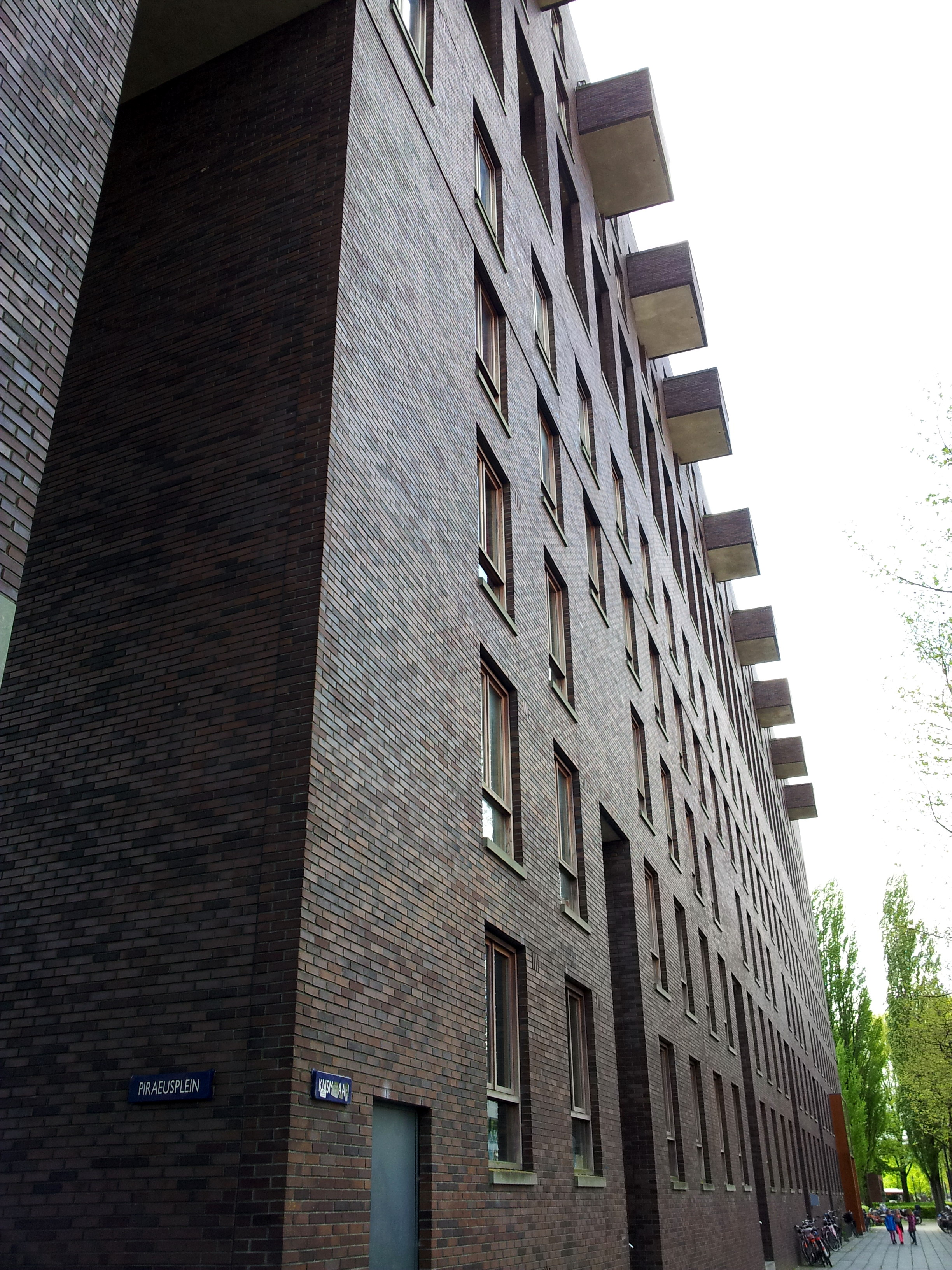 Amsterdam, the Netherlands, Eastern Docklands neighbourhood. Detail of Northern facade of Piraeus building on KNSM Island by German architect Hans Kollhoff.